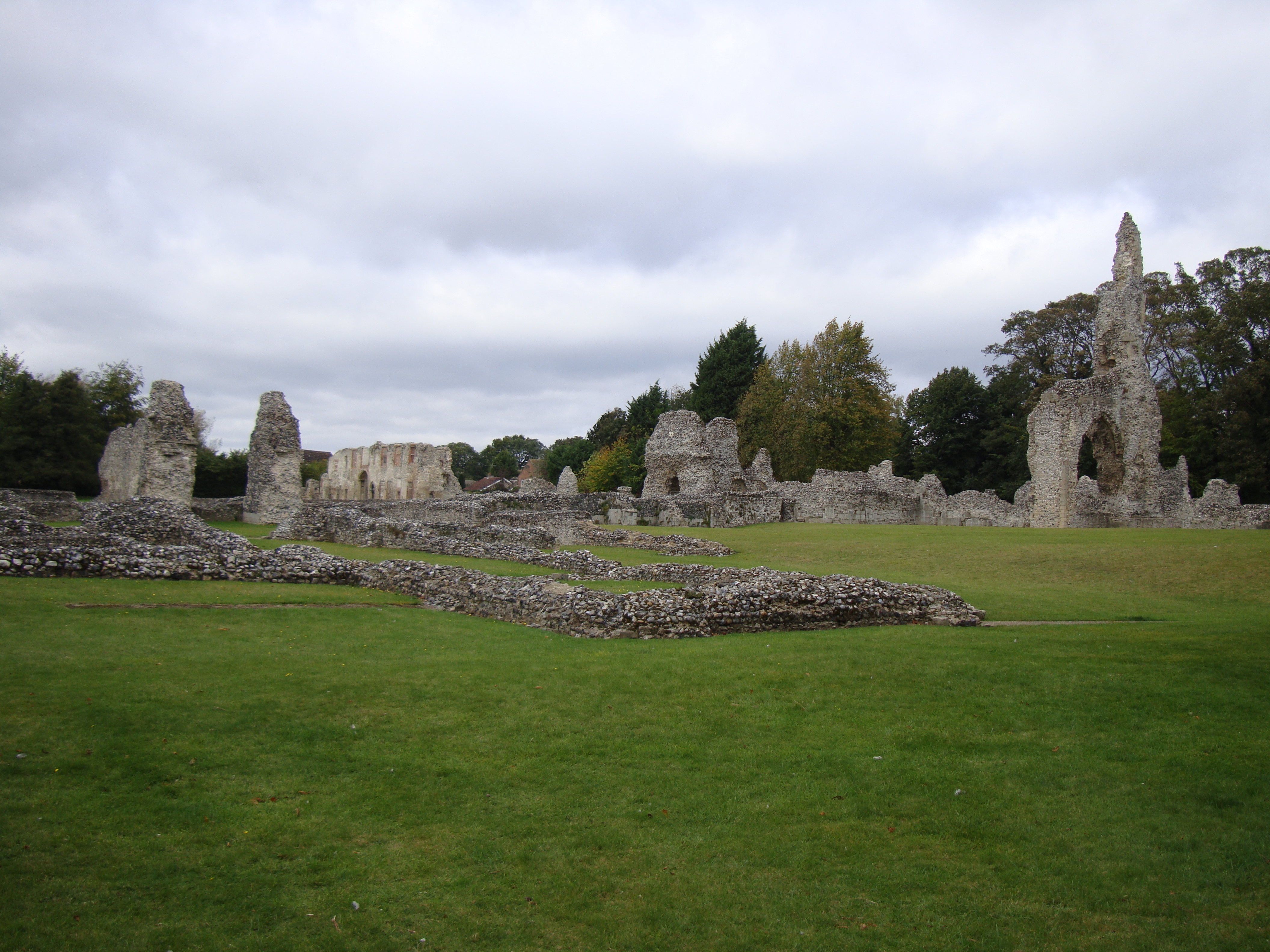 Photograph of the remains of Thetford Priory, Norfolk, England